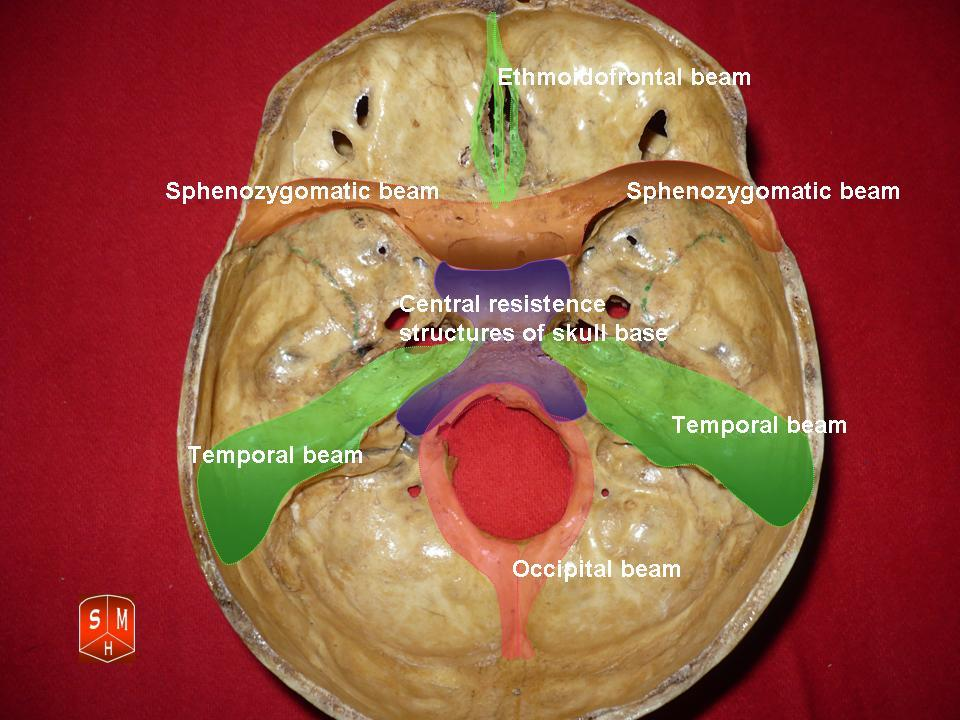 Endobasis - resistences beams